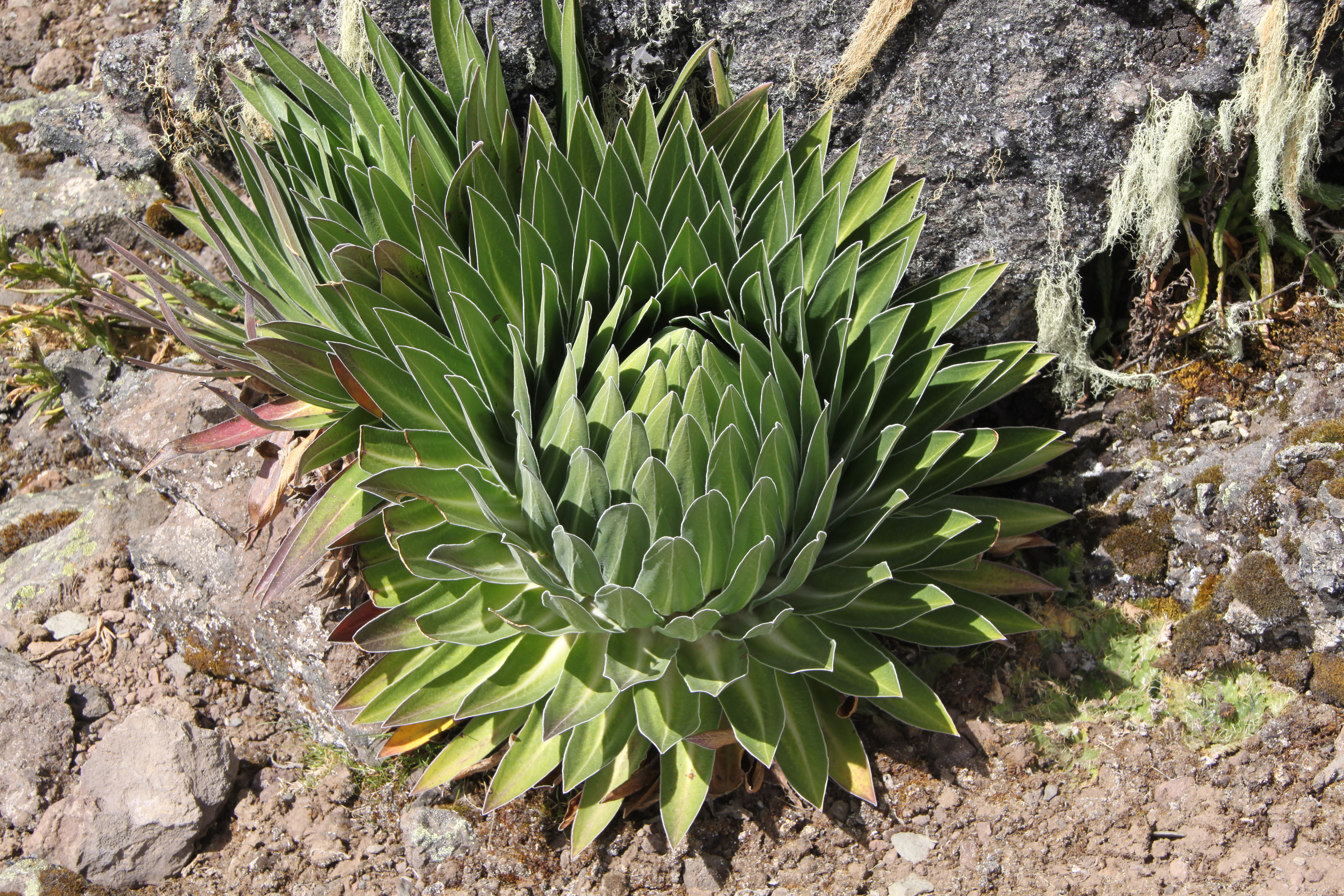 rosette of Lobelia telekii, photographed at Hall Tarns, Chogoria route, Mount Kenya, at 4300 m altitude